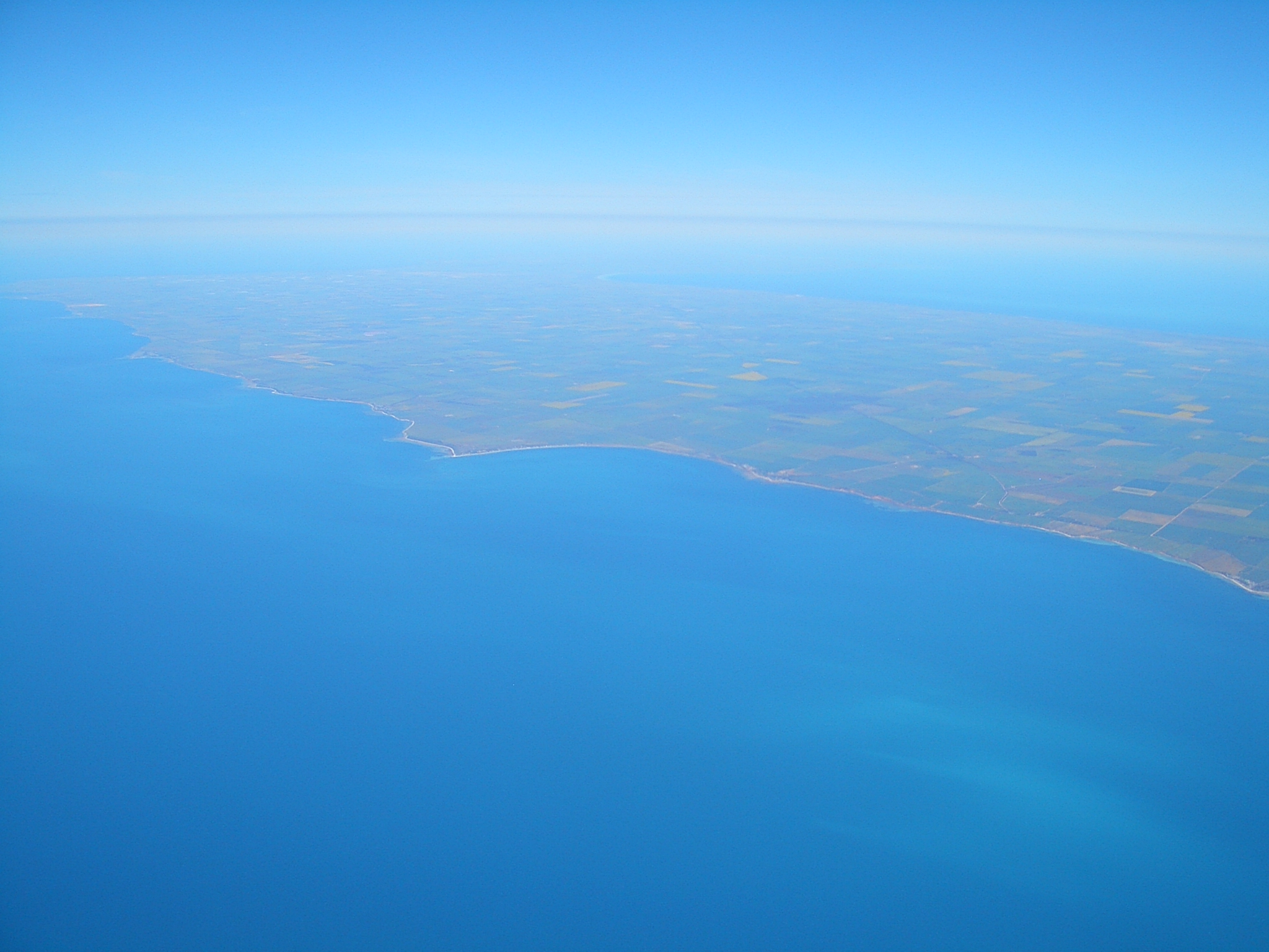 Aerial view of Gulf of St Vincent (foreground) and Yorke Peninsula, looking south or south-west. The "boot" of Yorke Peninsula can be discerned near the horizon in the center